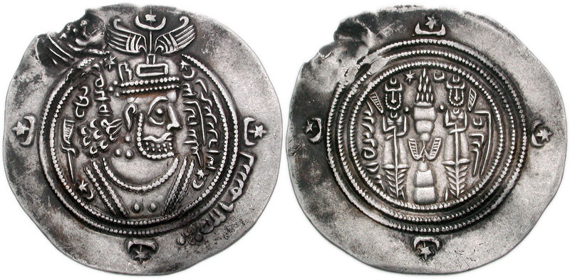 Umayyad Caliphate. temp. Mu'awiya I ibn Abi Sufyan. AH 41-60 / AD 661-680. AR Drachm (31mm, 4.03 g, 3h). Arab-Sasanian type. BCRA (Basra) mint; ‘Ubayd Allah ibn Ziyad, governor. Dated AH 56 = AD 675/6. Sasanian style bust imitating Khosrau II right; bismillah and three pellets in margin; c/m: winged creature right / Fire altar with ribbons and attendants; star and crescent flanking flames; date to left, mint name to right.